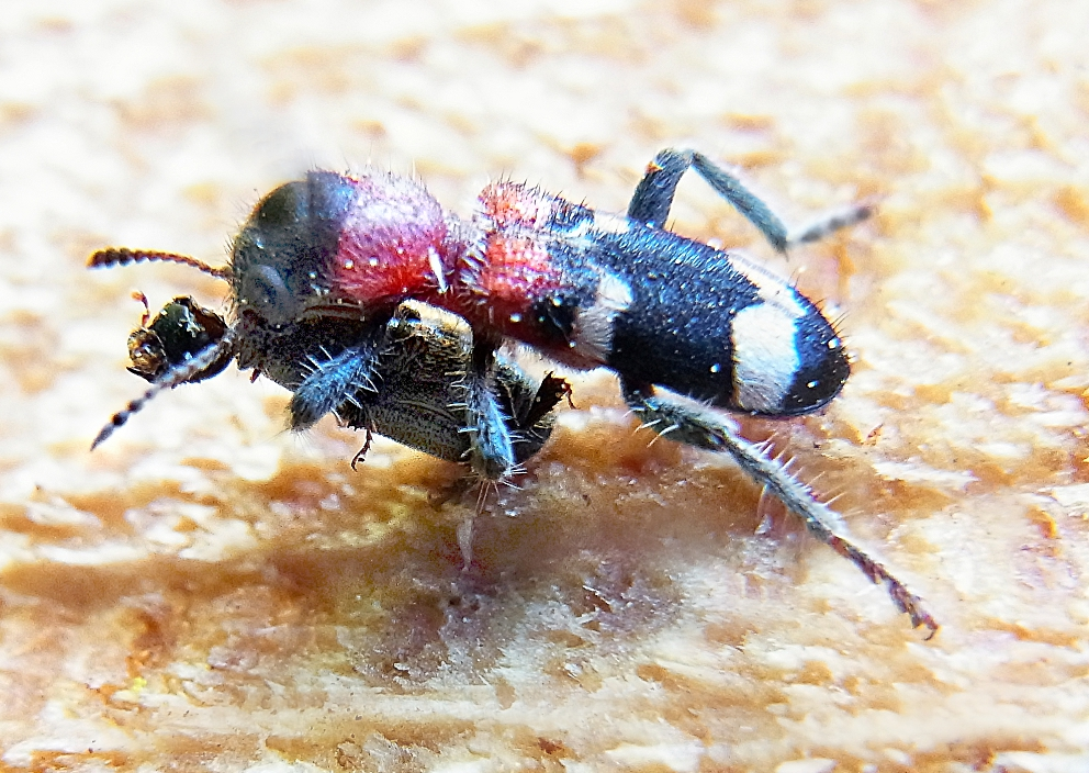 European red-bellied clerid - from France (Belin-Béliet) with prey (beetle of family Histeridae)